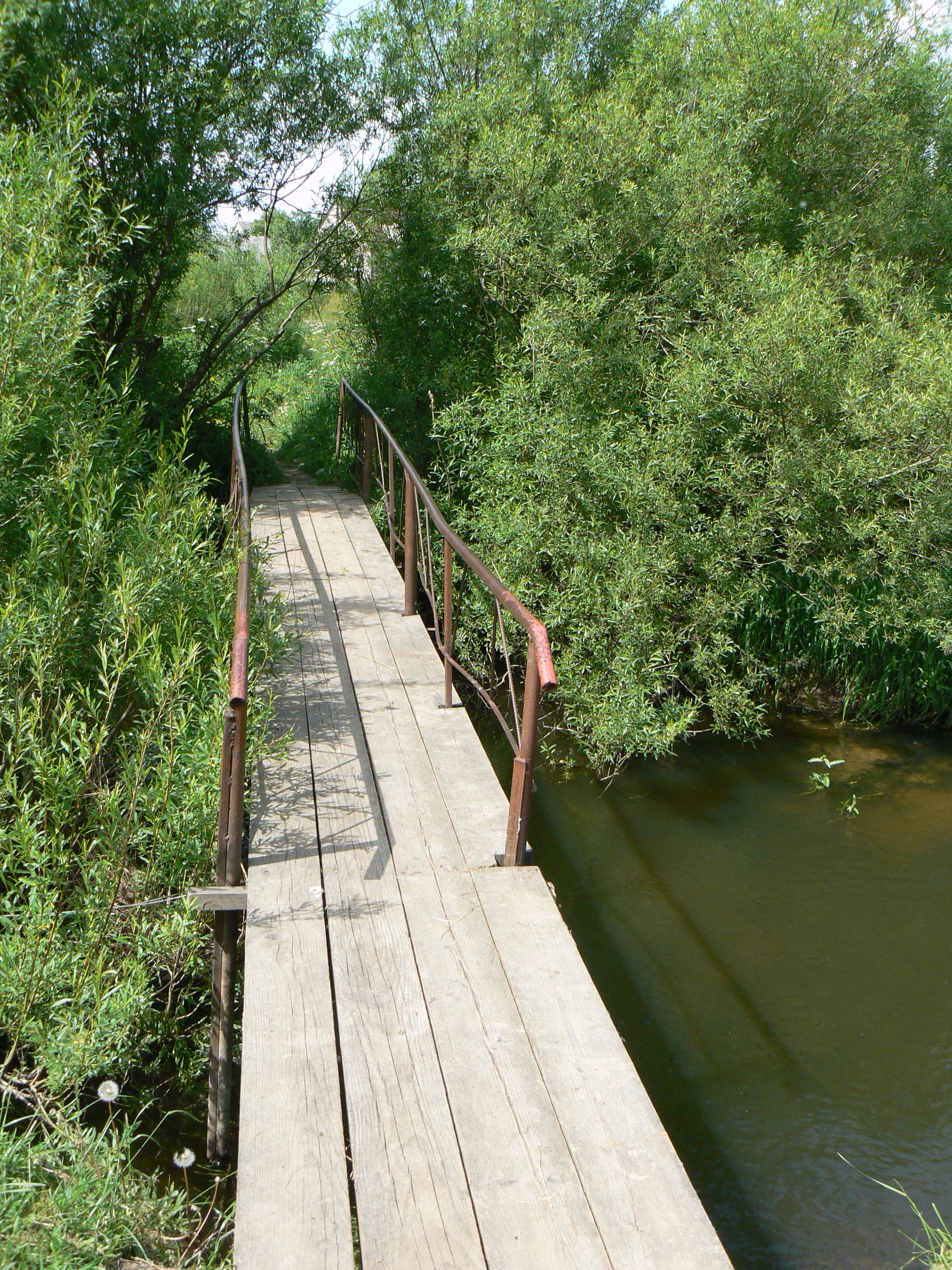 Walking bridge in Šilalė city (Lokysta) Česky: Lávka přes Lokystu v Šilalė.